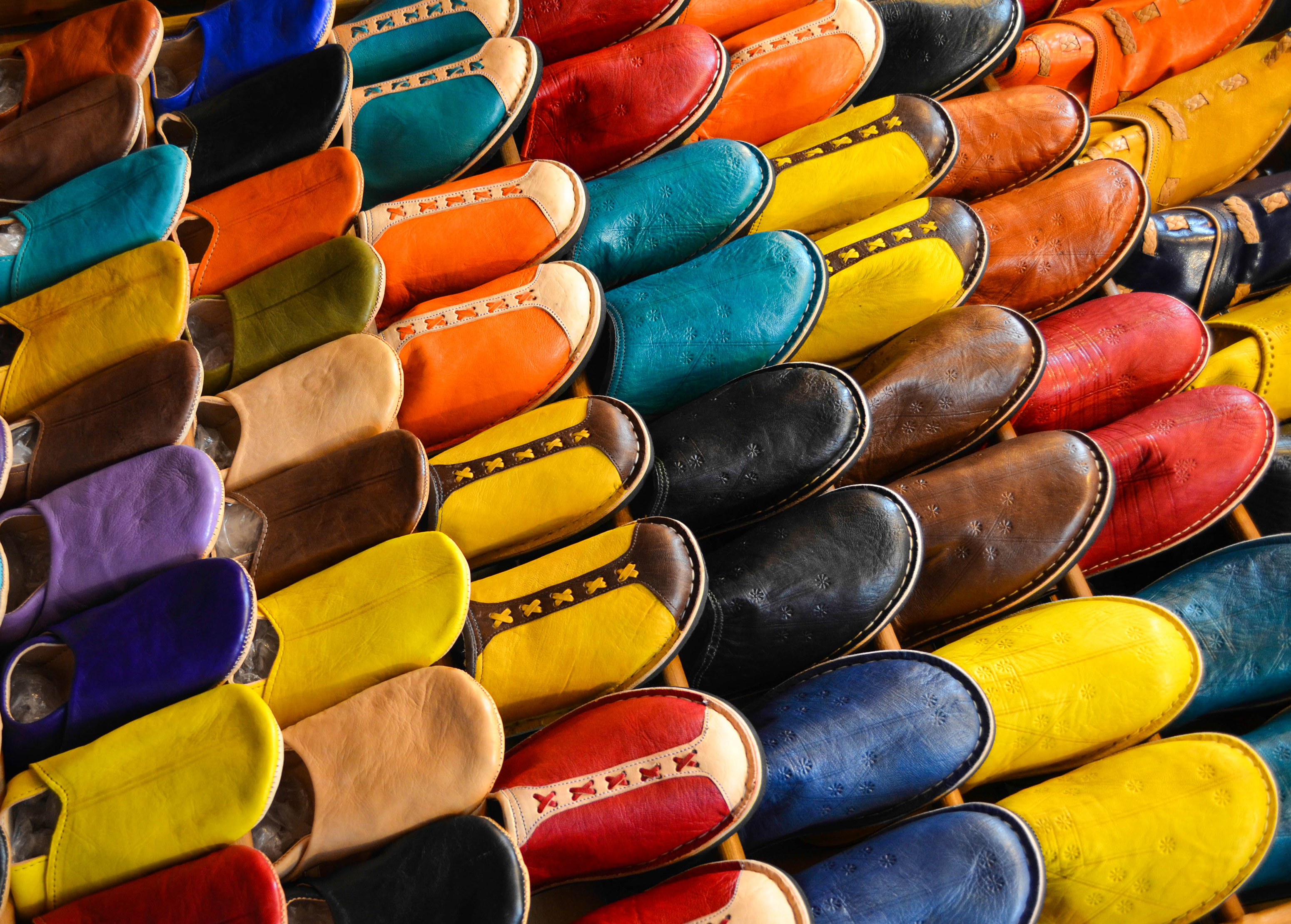 Colourful slippers in a shop in Marrakesh, Morocco